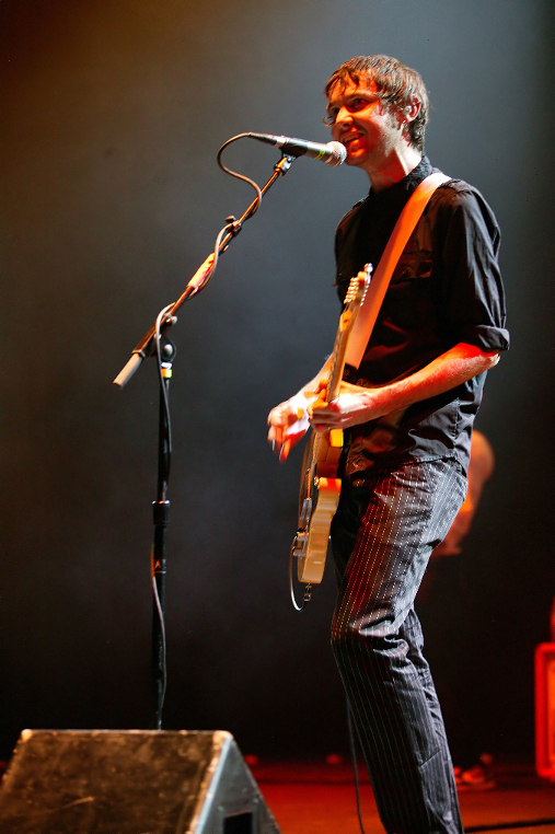 Jim Ward, El Paso TX.